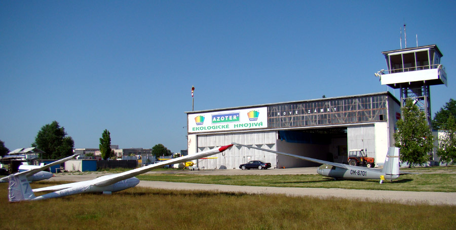 The airport in Nové Zámky - buildings